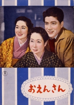 Japanese movie poster for 1955 Japanese film Cry-Baby (Oen-san)